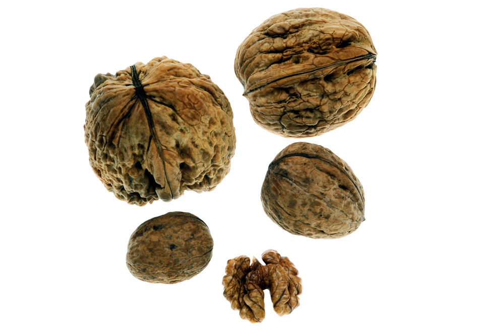 Walnuts from northern Poland